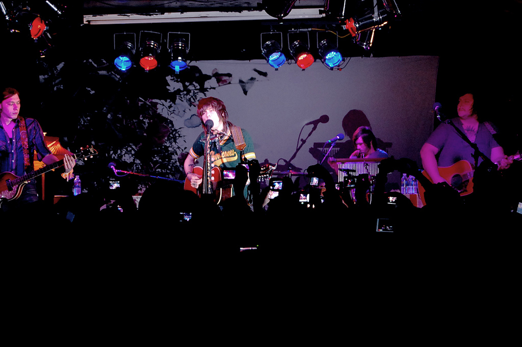 Acoustic Tour / Orangevale, CA (The Boardwalk) I was all the way in the back and left my zoom lens in the car, which is the reason why the pictures are so far away. But I think they turned out pretty good.